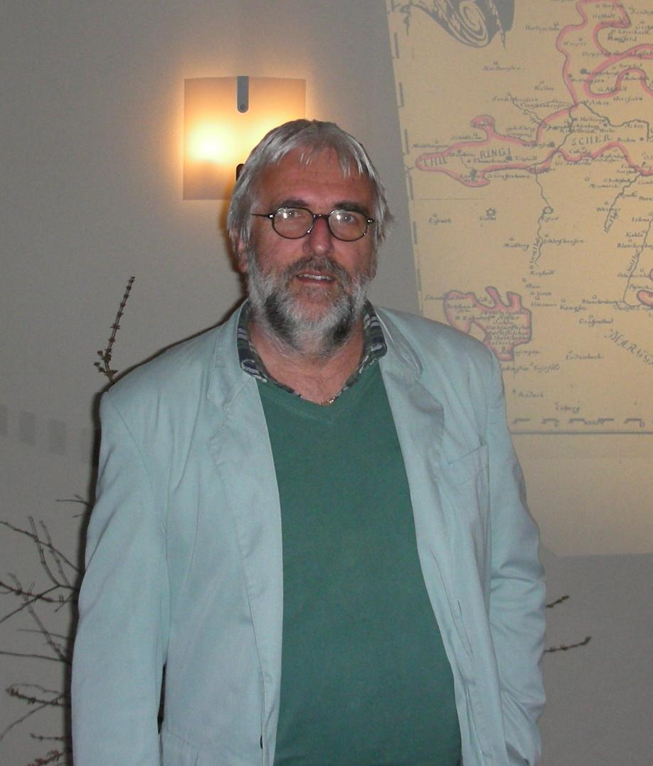 local historian Werner Poellmann